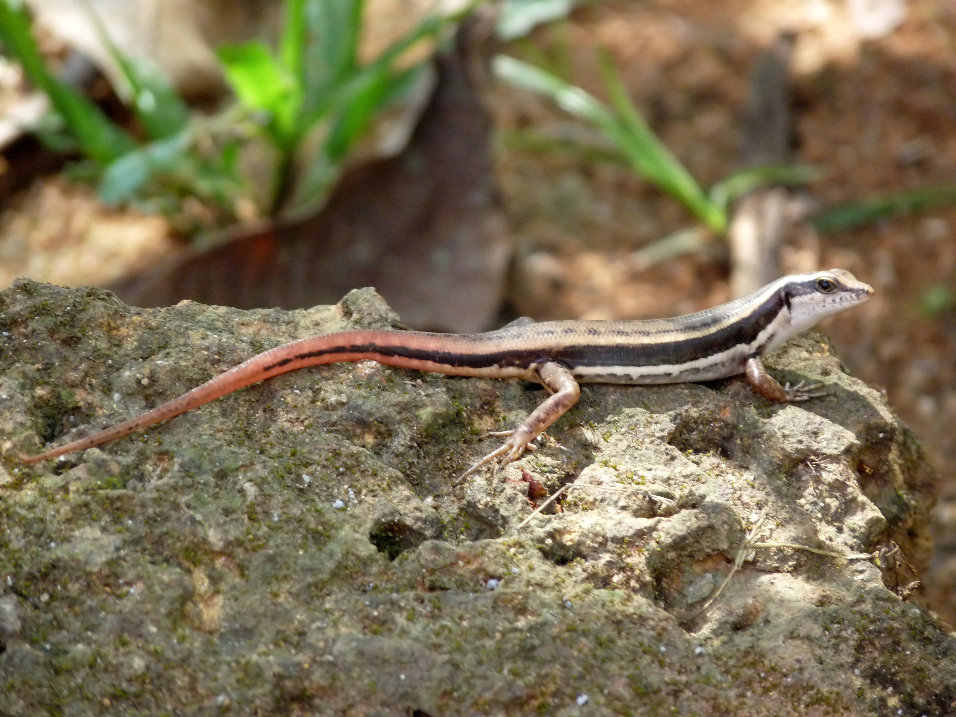 Sphenomorphus dussumieri, Dussumier's Forest Skink, is a species of skink found in the Western Ghats of India.